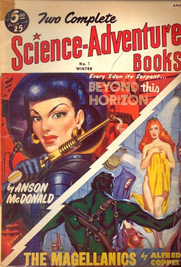 Cover, Two Complete Science Adventure Books, Winter 1952